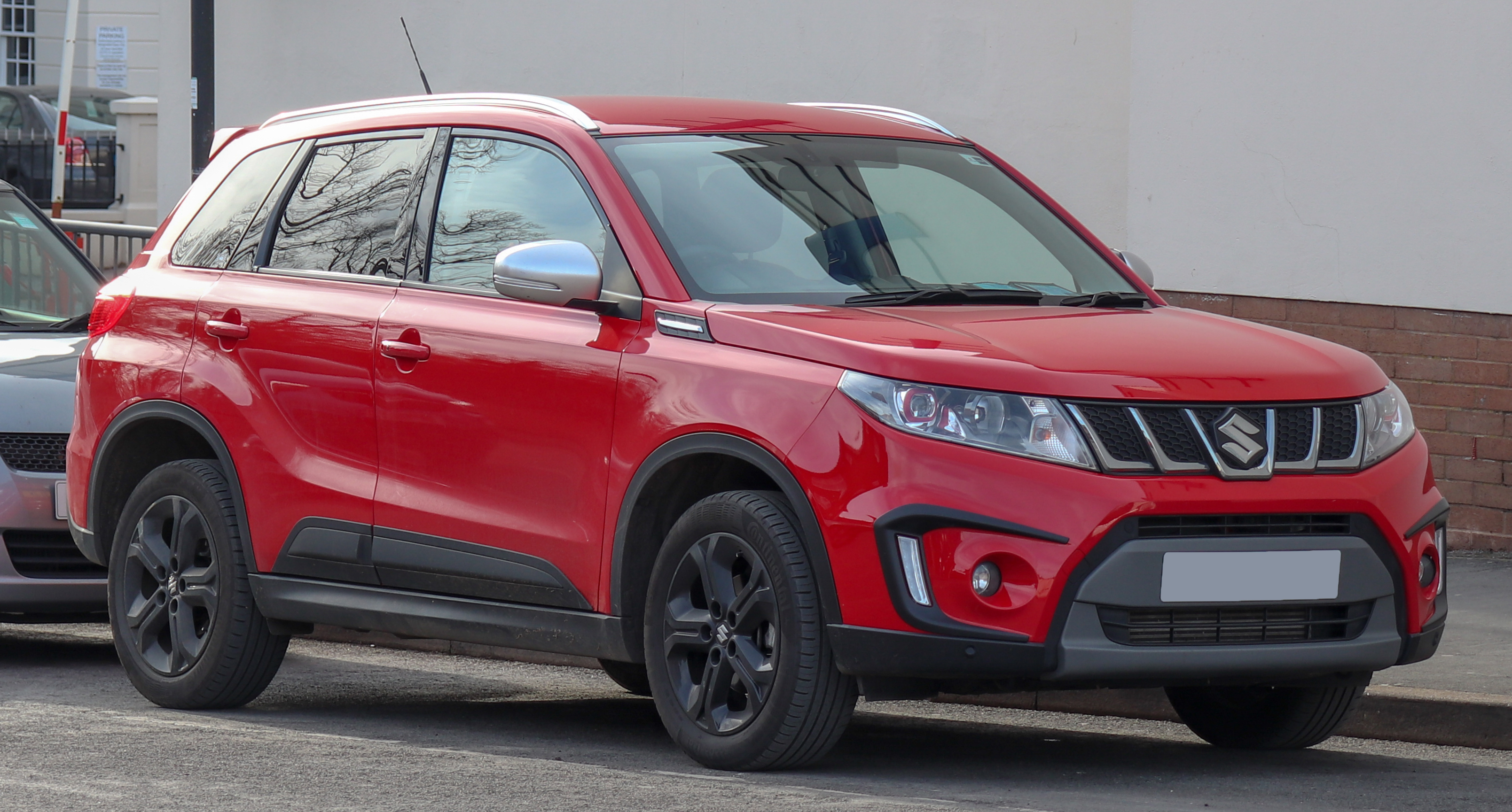 2018 Suzuki Vitara S Boosterjet Allgrip 1.4 Taken in Leamington Spa